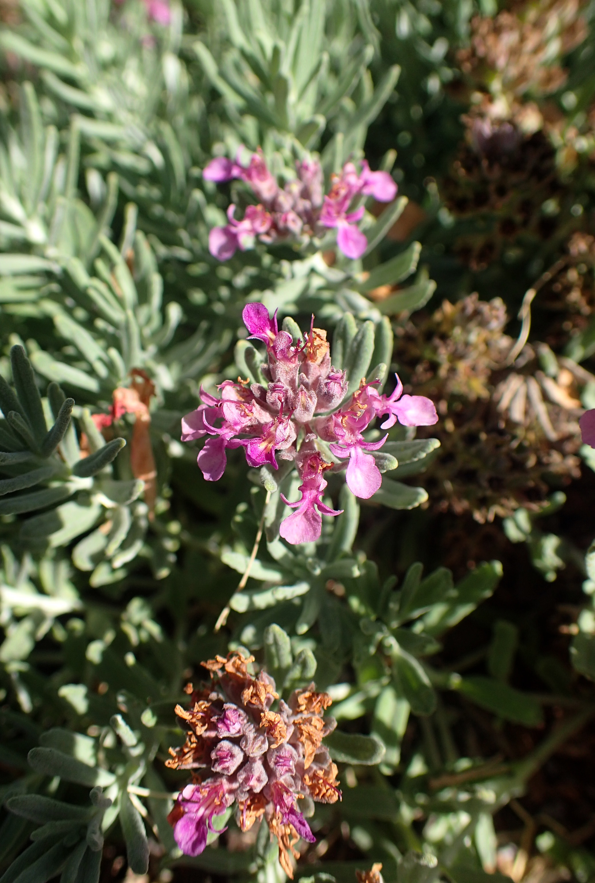 Teucrium cossonii in Clovis Botanical Garden